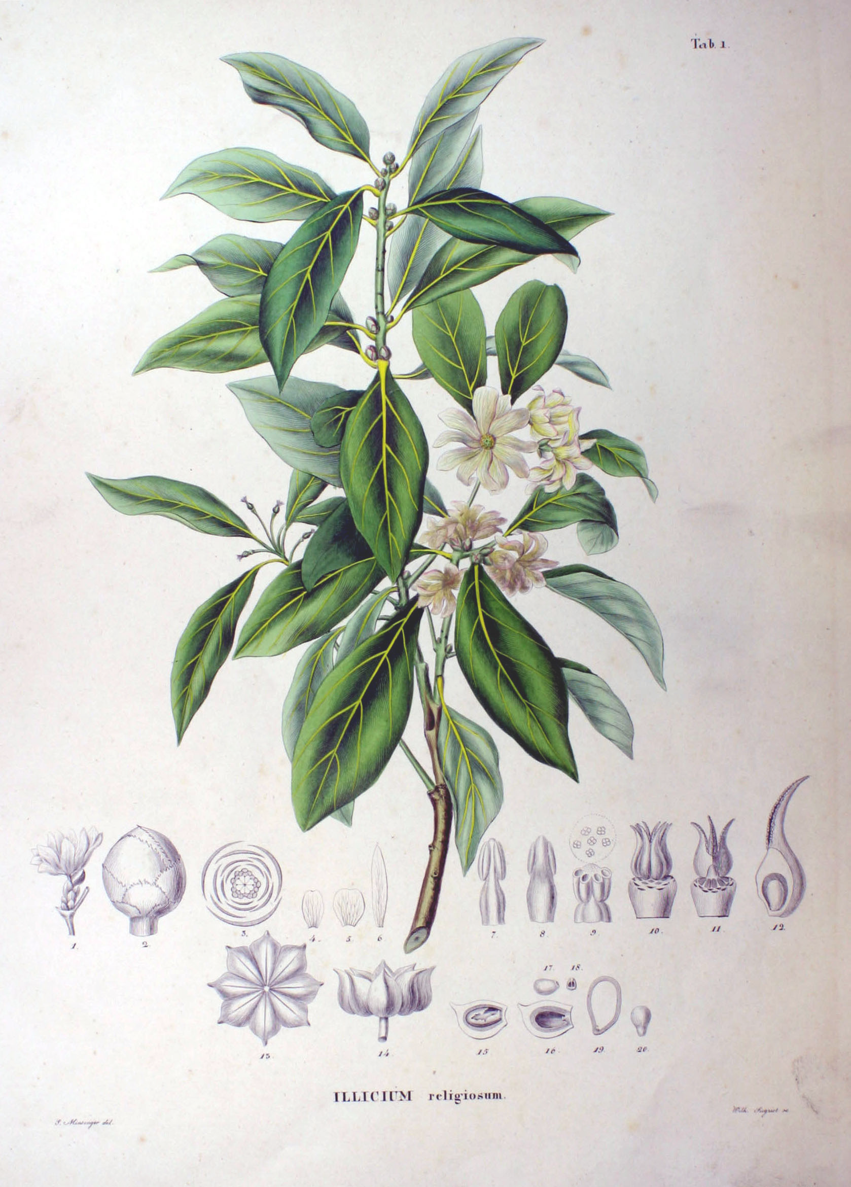 Plate from book